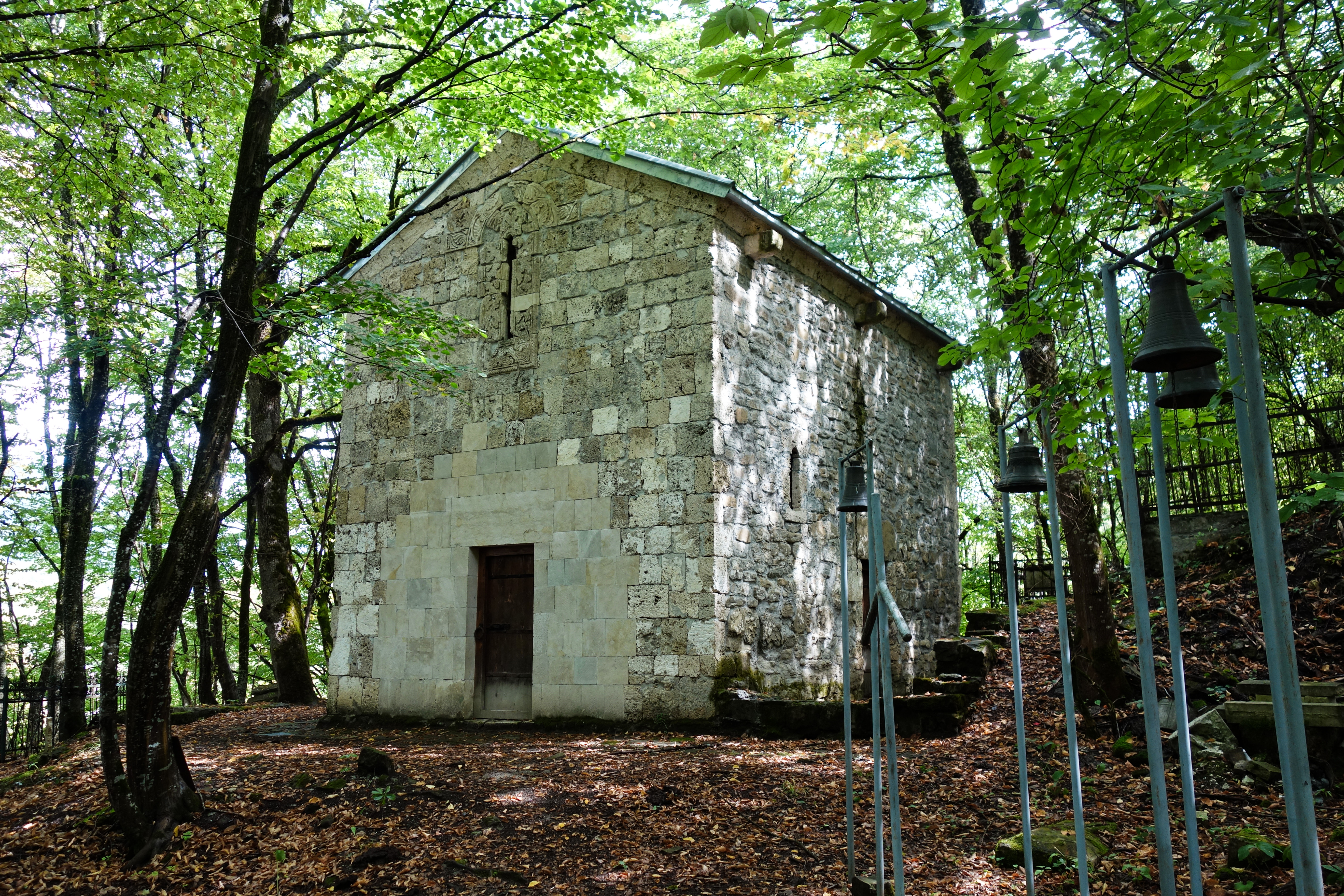 Khimshi Church (XI c.), Racha, Georgia